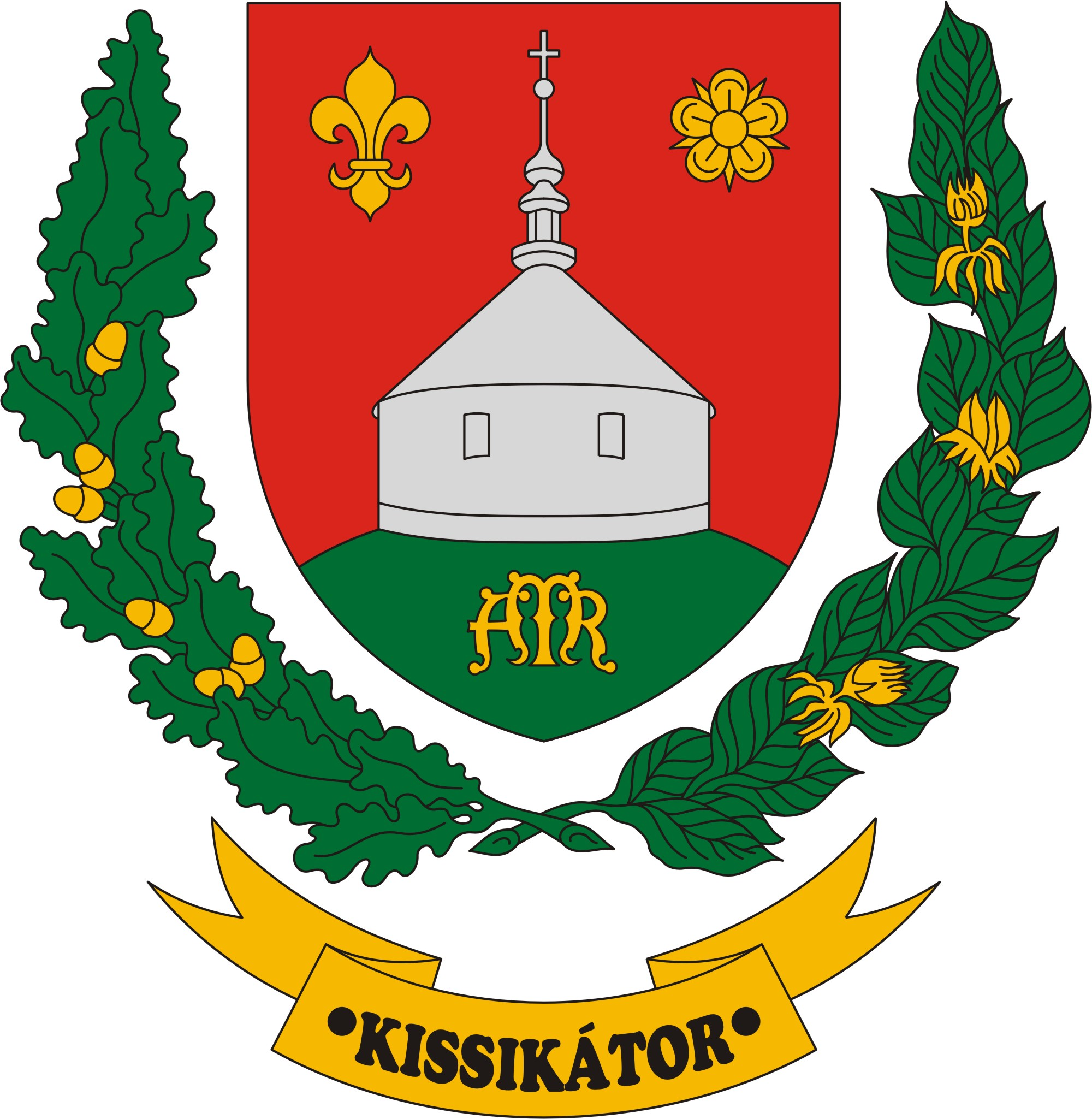 Coat of arms of Kissikátor, Hungary